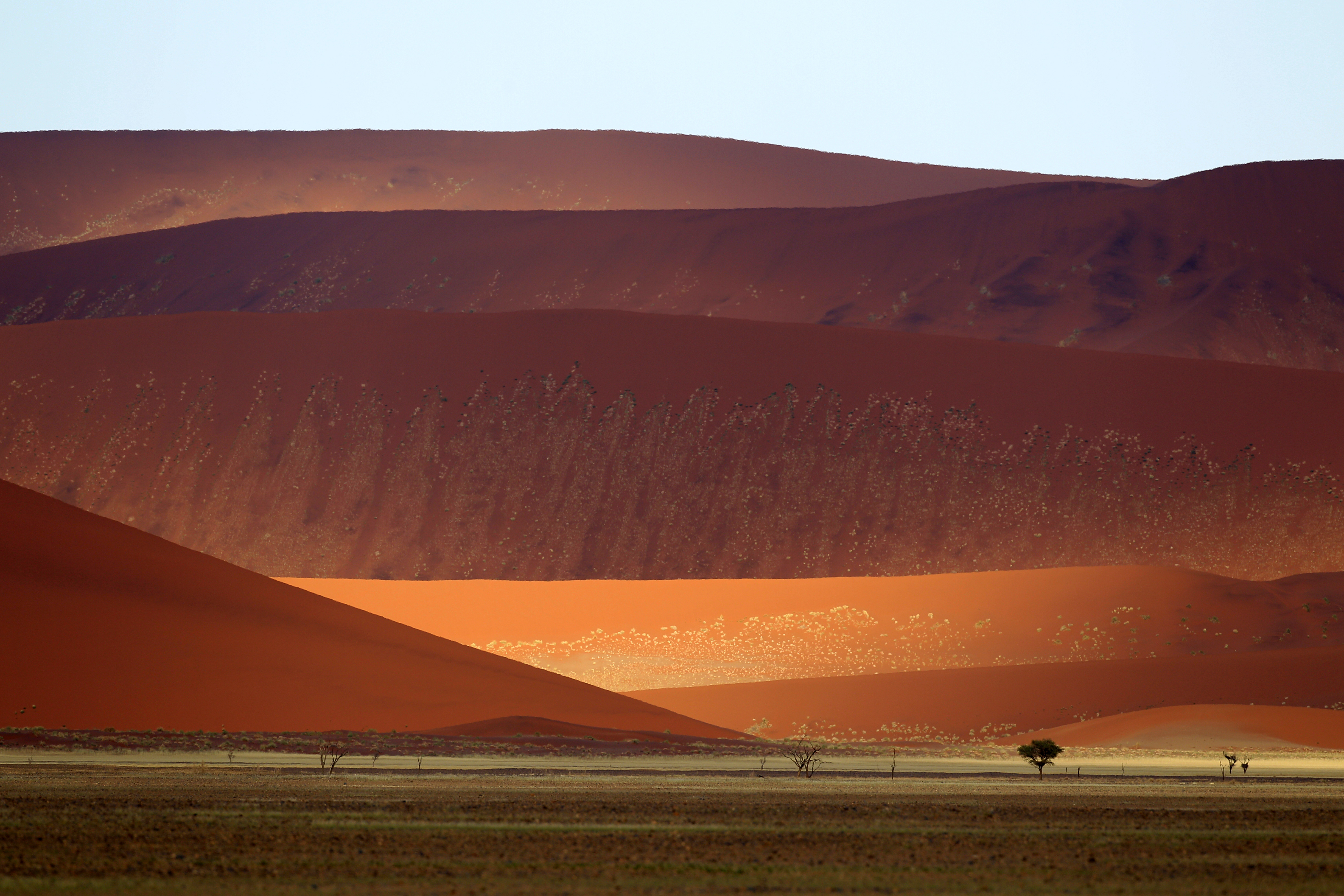 Sand dunes in the Namib-Naukluft National Park, Namibia.